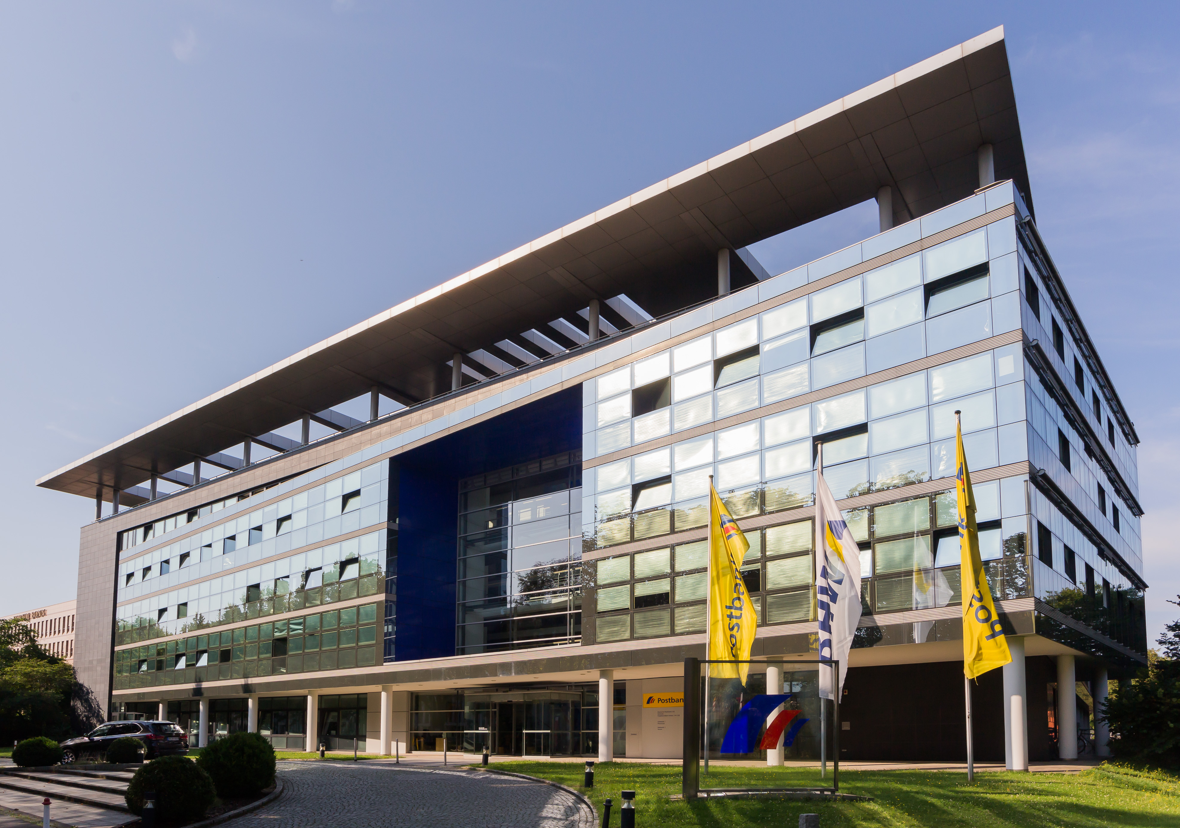 Deutsche Postbank headquarters, Friedrich-Ebert-Allee 114–126 (here: 114, “House 1”), Bonn-Gronau